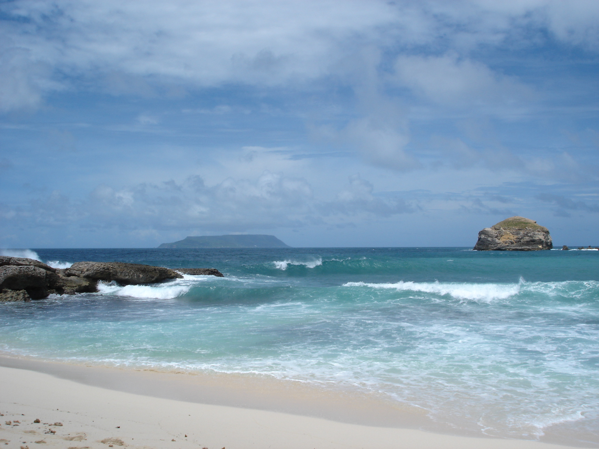 La Désirade seen from Grande-Terre, Guadeloupe